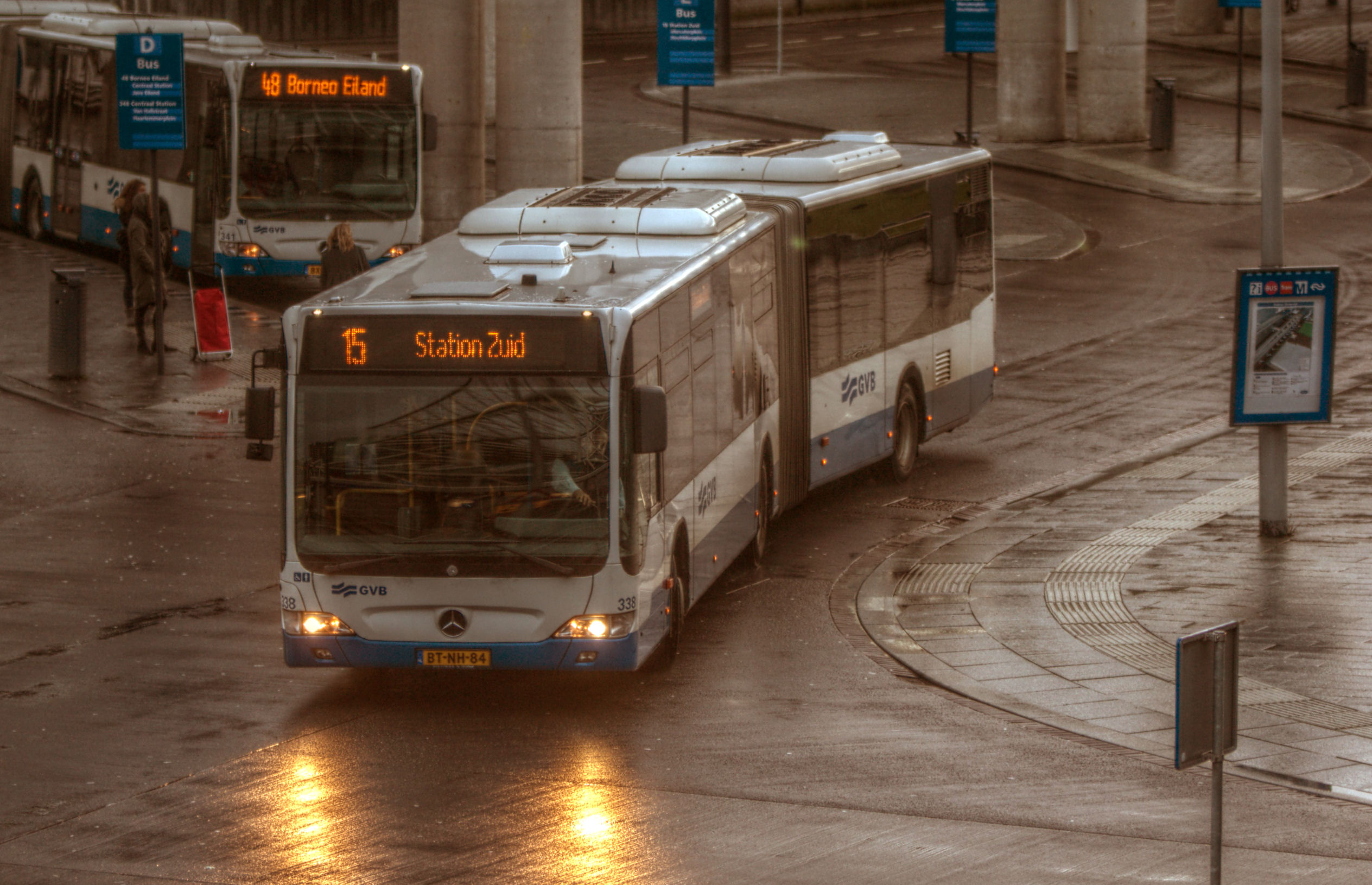 Bus 15 at its terminus Sloterdijk